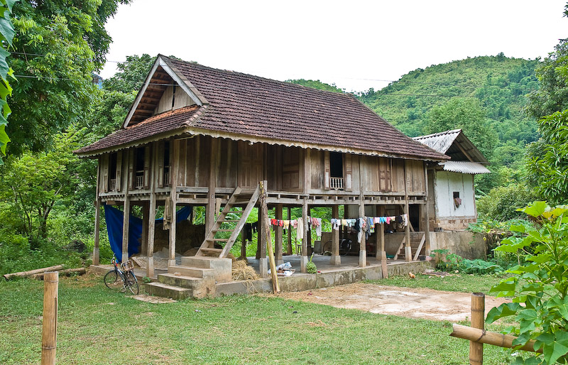 A stilt house in Mai Chau, Hoa Binh, Vietnam